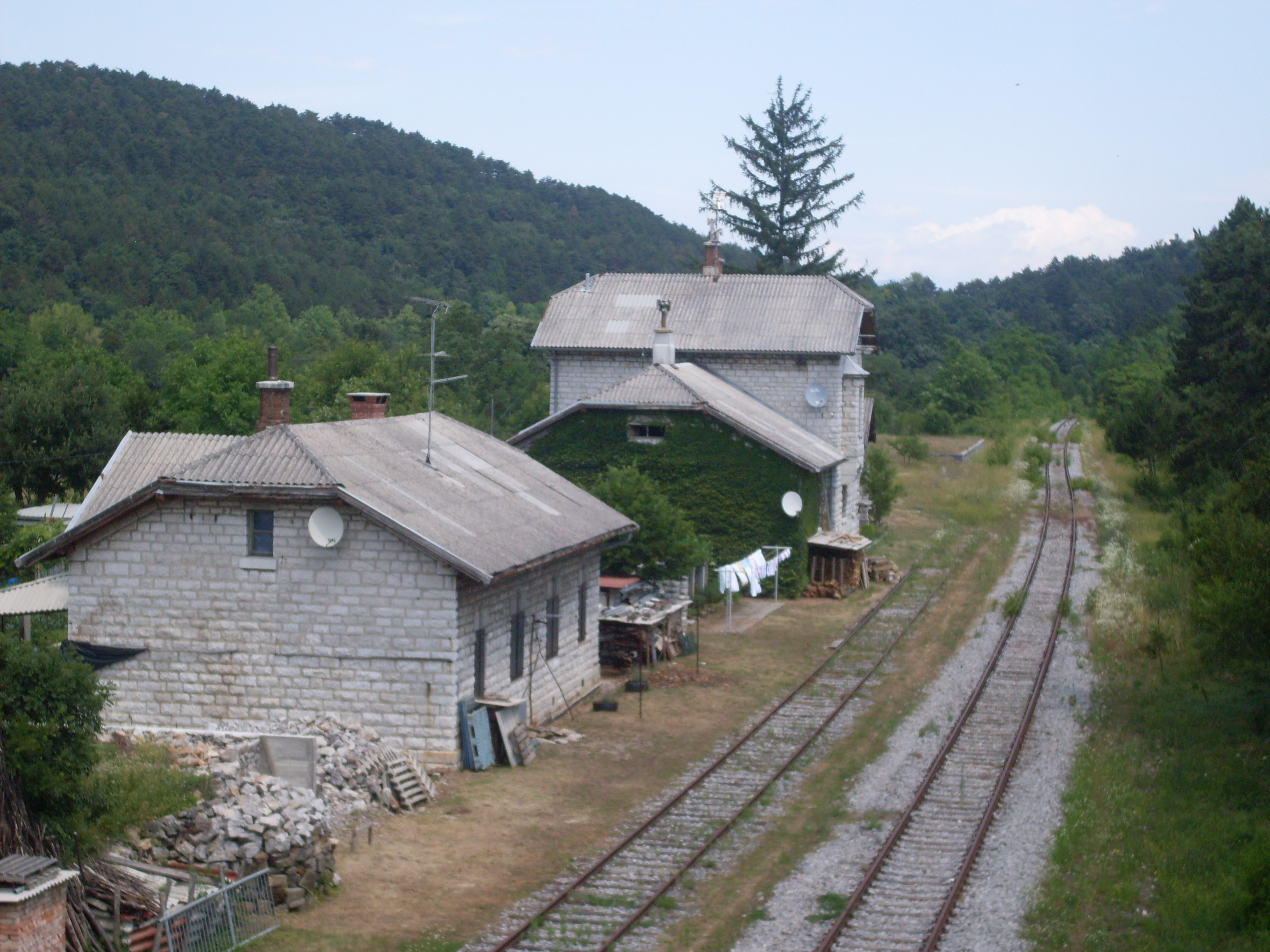 Former train station Repentabor (named after nearby Monrupino in the present day Italy) in Dol pi Vogljah on the original route of the Bohinj railway (going towards Trieste). View from the nearby overpass.